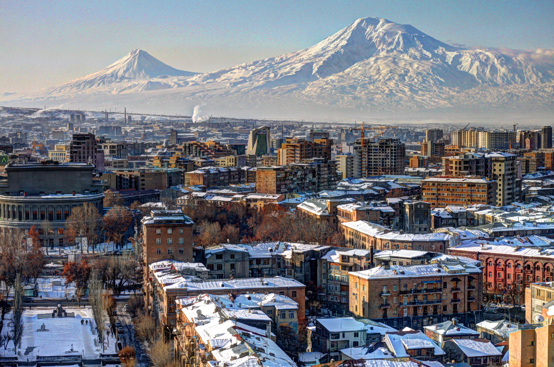 A winter view of Yerevan, the capital city of the Republic of Armenia, with the backdrop of Mount Ararat (locally known as Masis).